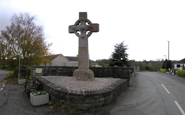 Tynan Cross Tynan has a Celtic cross marking the entrance to the county, with a carving of Adam and Eve under an apple tree. Tynan High Cross is by the village’s churchyard and dates from 700-900.